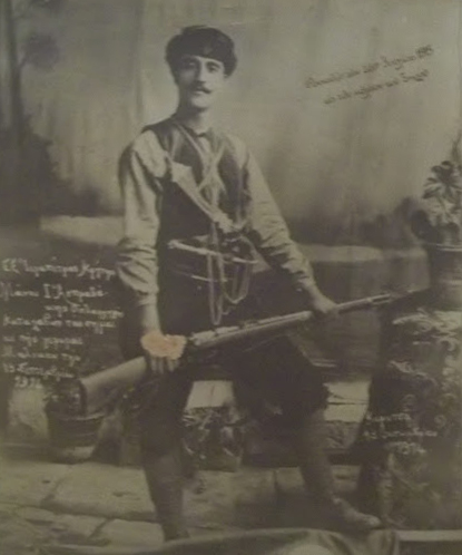 Portrait of greek andart Pavlos Giparis